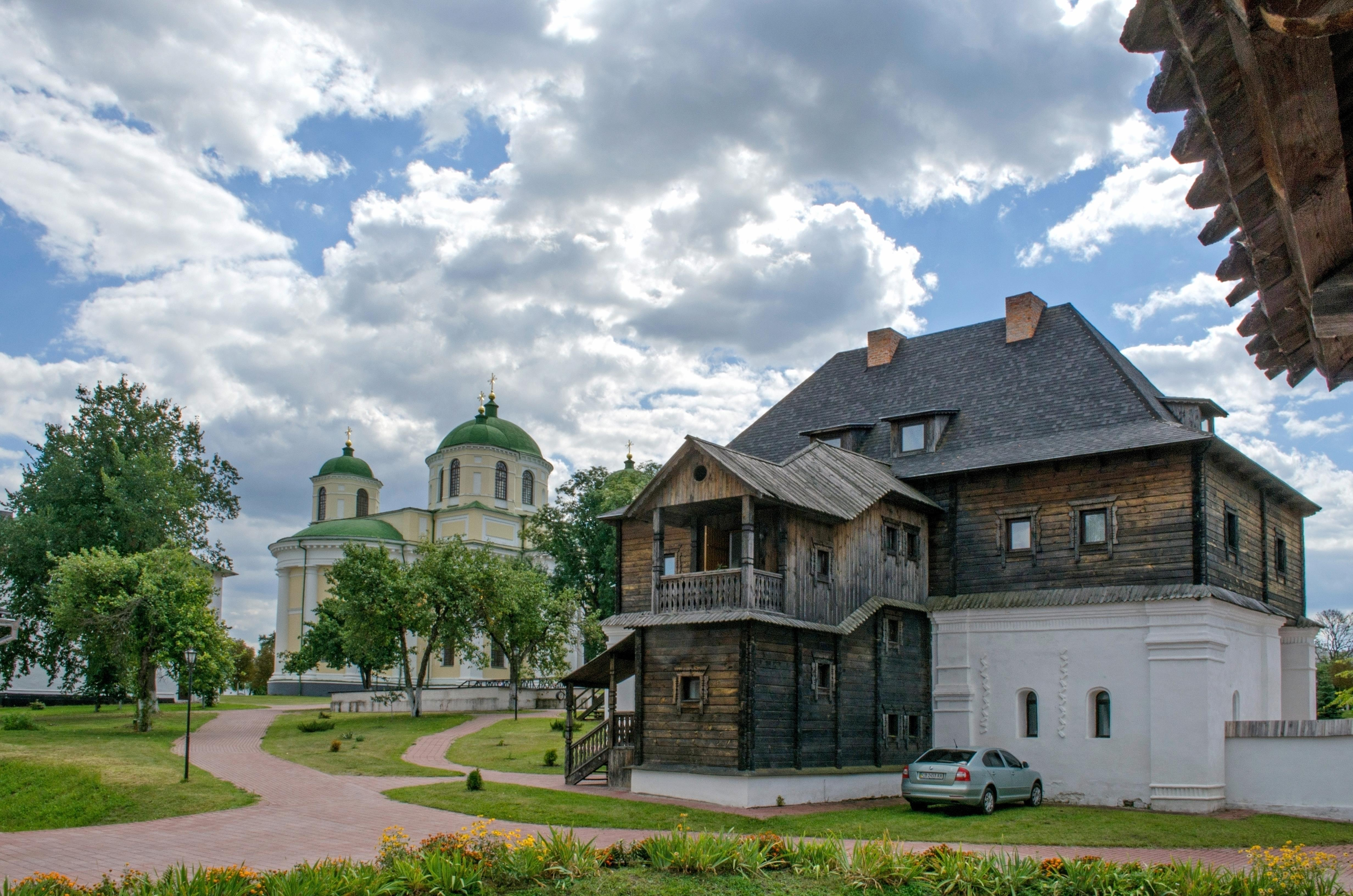 Our Savior and Transfiguration Monastery, Novhorod-Sivers'kyi, Chernihiv Oblast, Ukraine